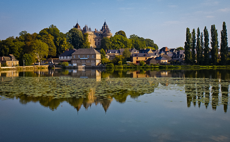 Chateau de Chateaubriand This building is en partie classé, en partie inscrit au titre des Monuments Historiques. .